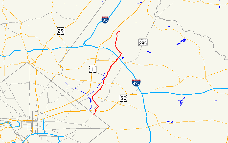 Map of Maryland Route 201